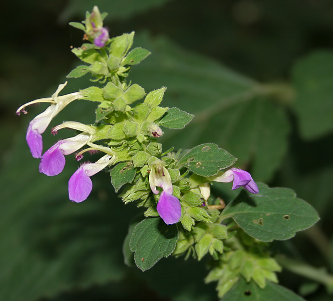 MALABAR CATMINT, Indian Catmint, Chodhara, Gopali, KABLING-PARANG or Kala bhangra Anisomeles indica in Narsapur, Andhra Pradesh, India.